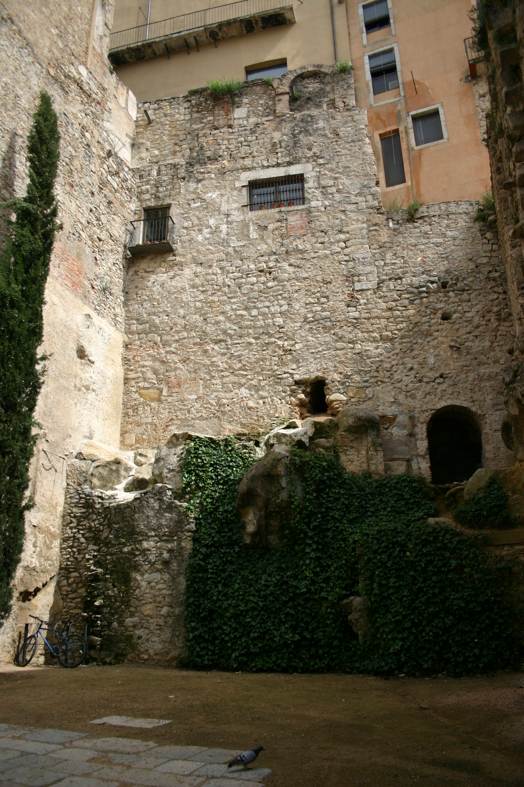 Girona's Wall. Catalonia (Spain).